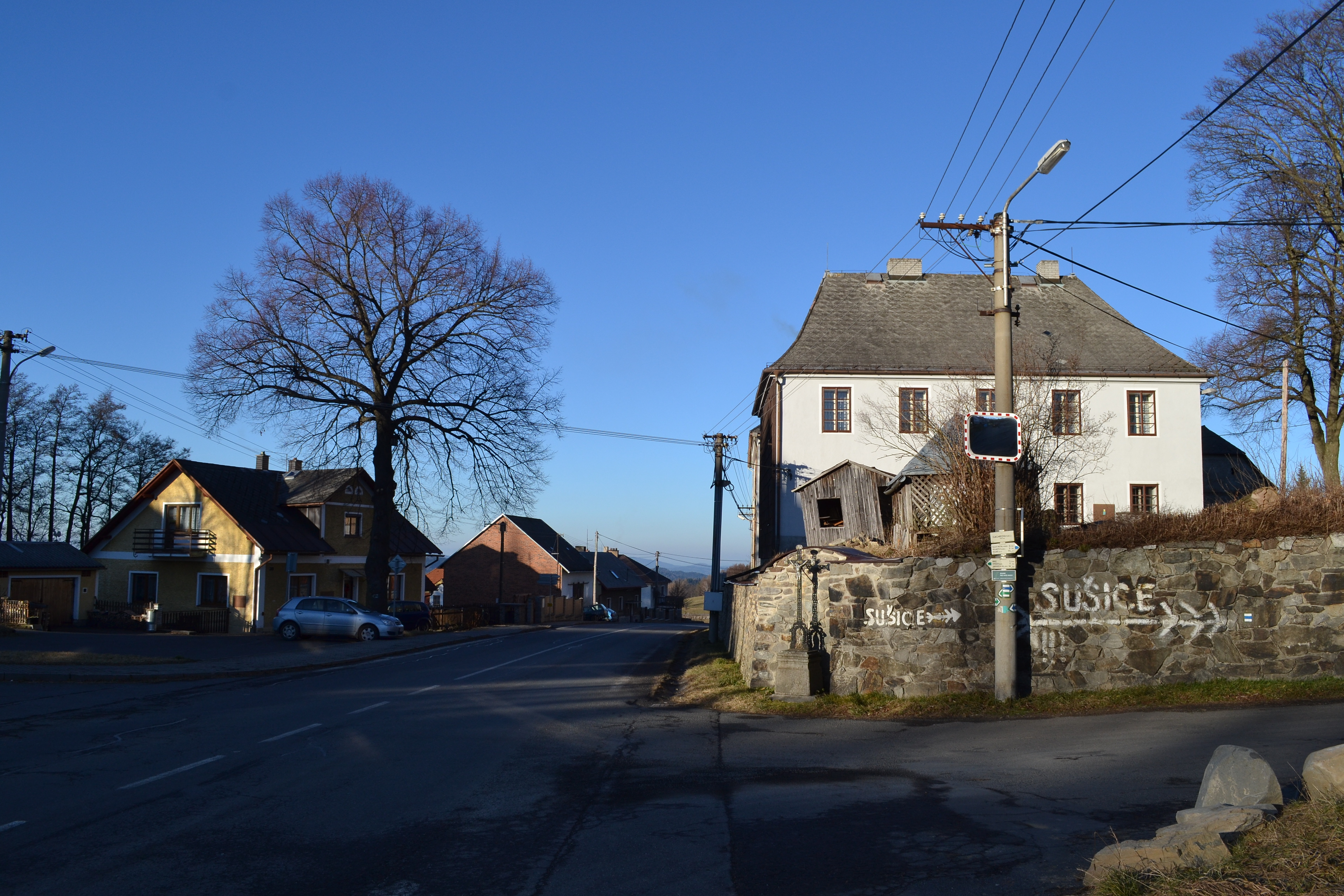 The town of Čachrov, Klatovy district, Czech Republic.